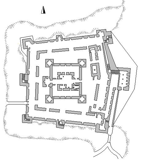 Plan of the crusader fortress Belvoir, Israel.